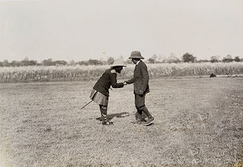 Nepalese Prime Minister Chandra Shamsher Jung Bahadur Rana (left) greeting King George V during a hunting trip to the Nepal Terai in 1911.